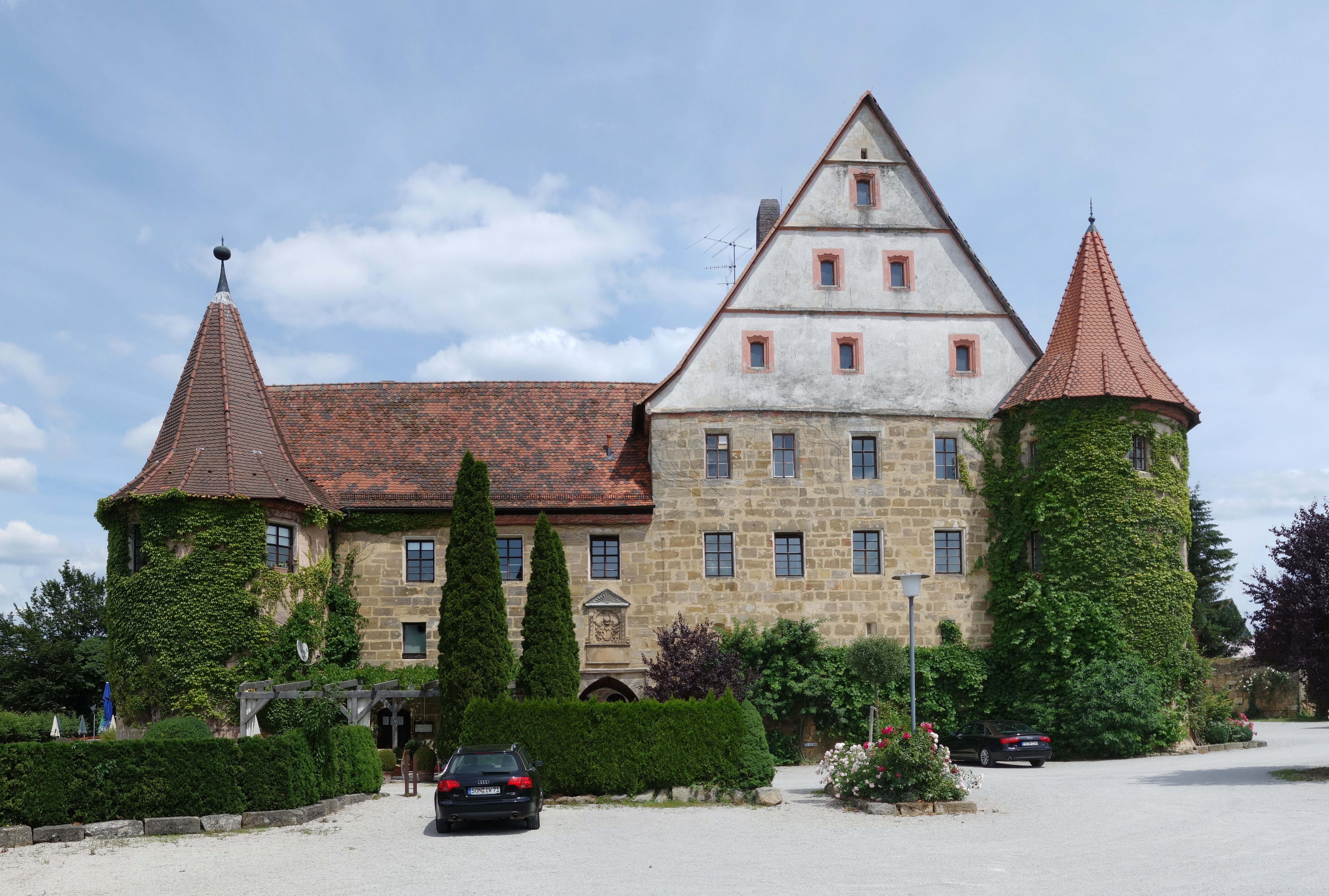 The western side of Schloss Wiesenthau, a country house in Wiesenthau, northern Bavaria.